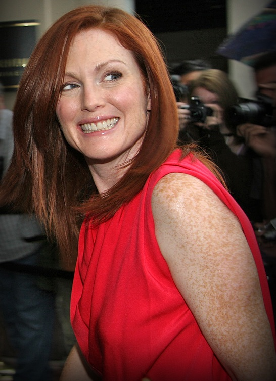 Julianne Moore at the 2008 Toronto International Film Festival